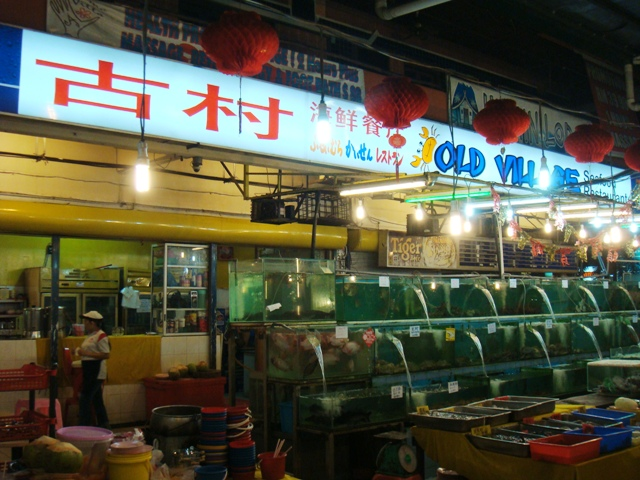 Furumura Seafood Restaurant, Kota Kinabalu.